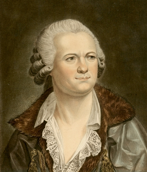 Pierre Joseph Desault (1744–1795), French surgeon and anatomist